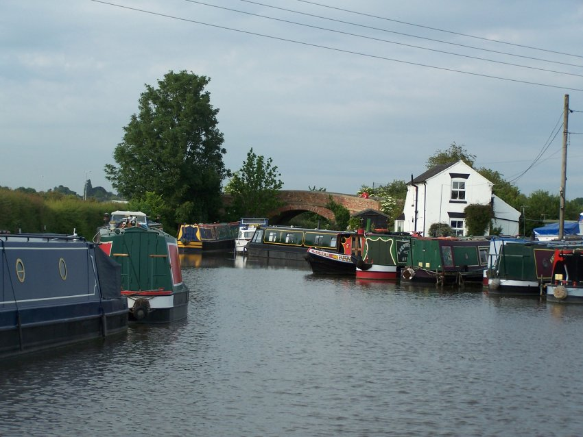 Author: Martin Cordon, Source: Own Image Martin Cordon 19:56, 10 June 2007 (UTC)